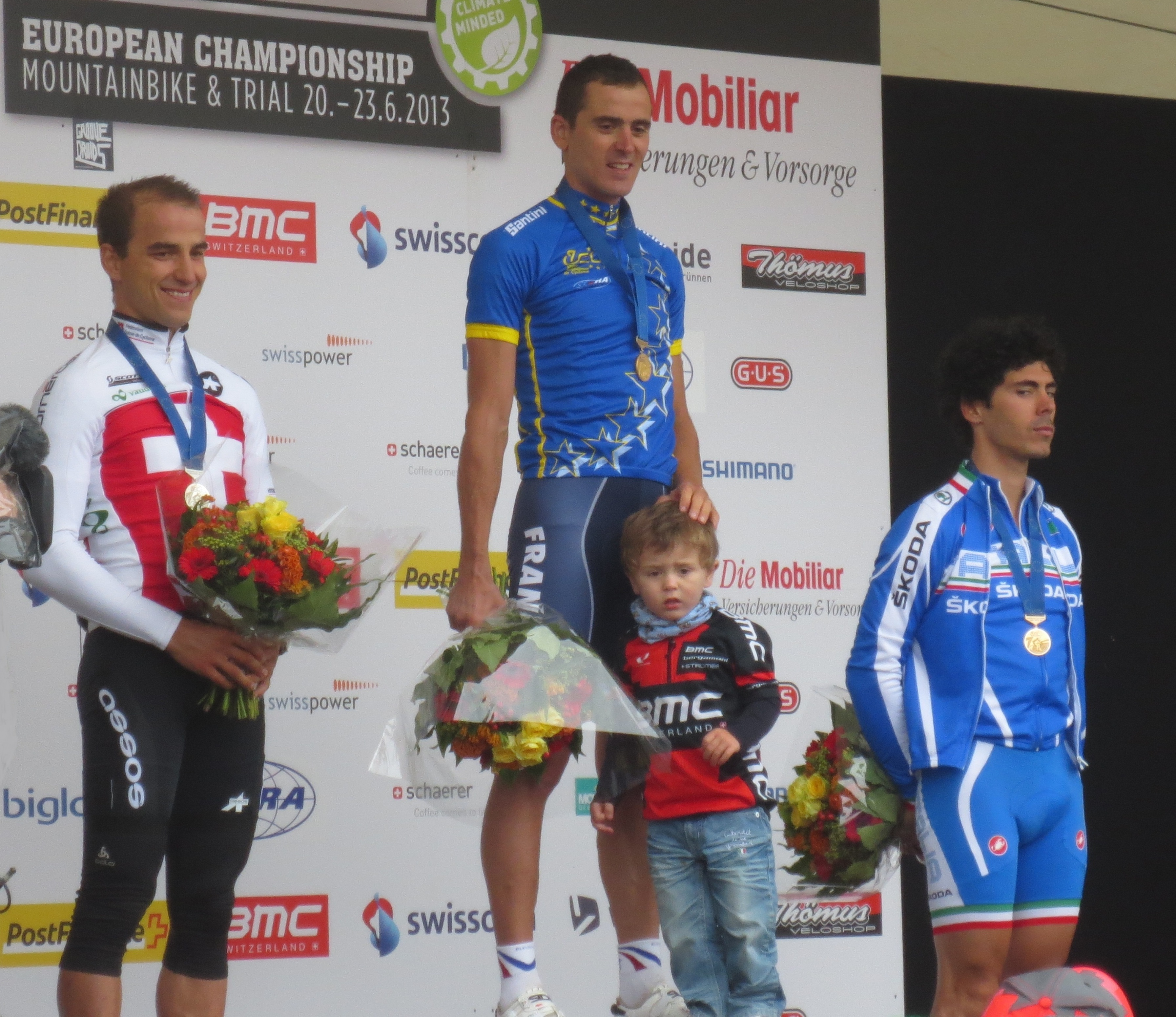 The 2013 European Mountain Bike Championships podium in Bern, Switzerland : Julien Absalon, Nino Schurter and Aurelio Fontana.